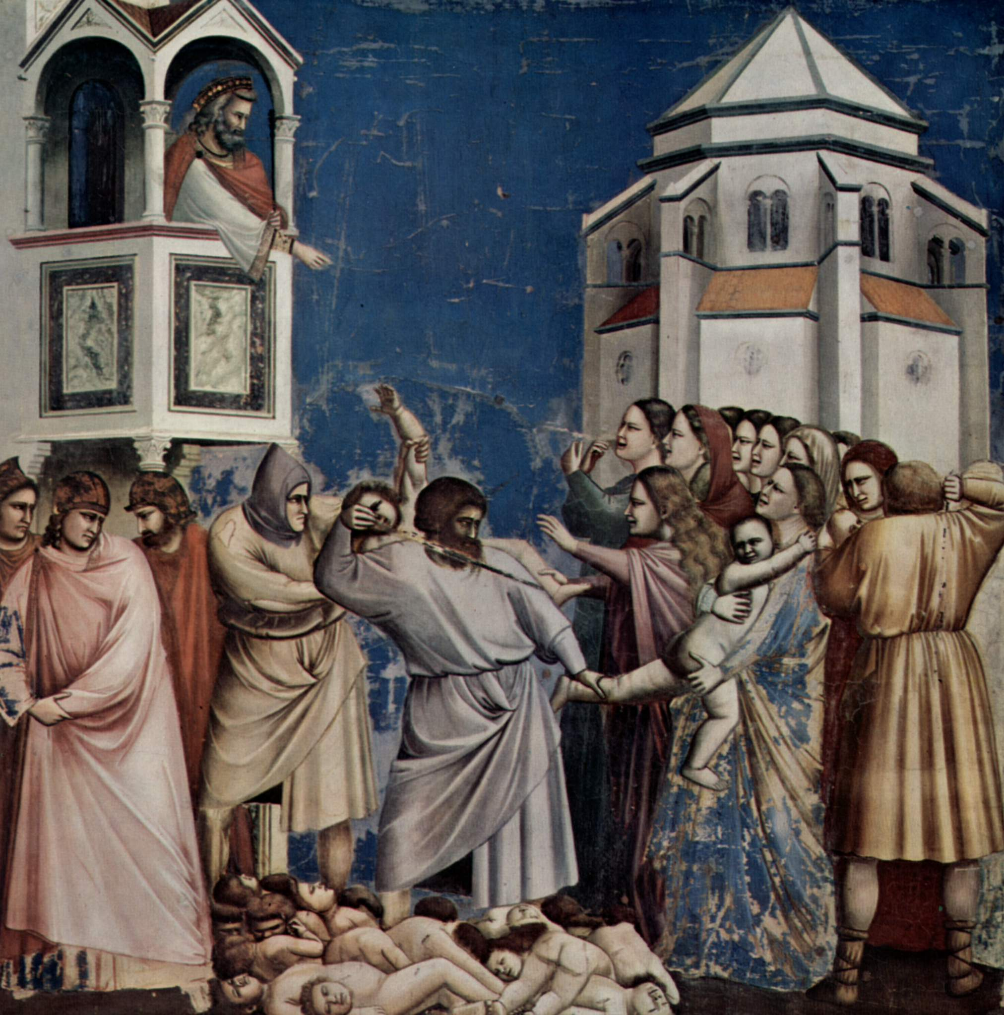 No. 21 Scenes from the Life of Christ: 5. Massacre of the Innocents